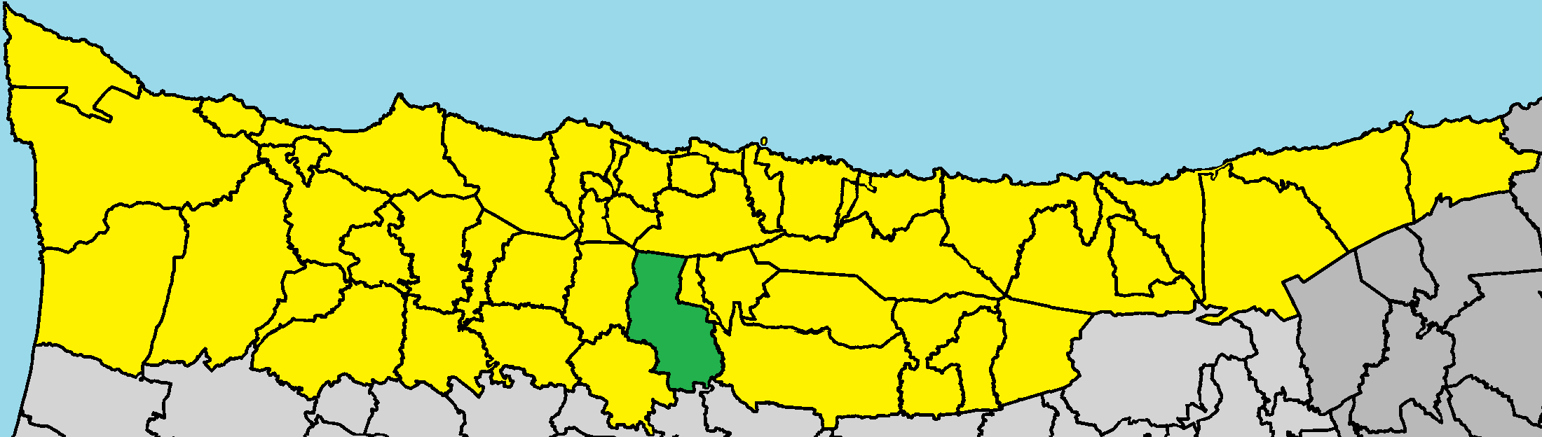 Krini in Kyrenia District (de jure).